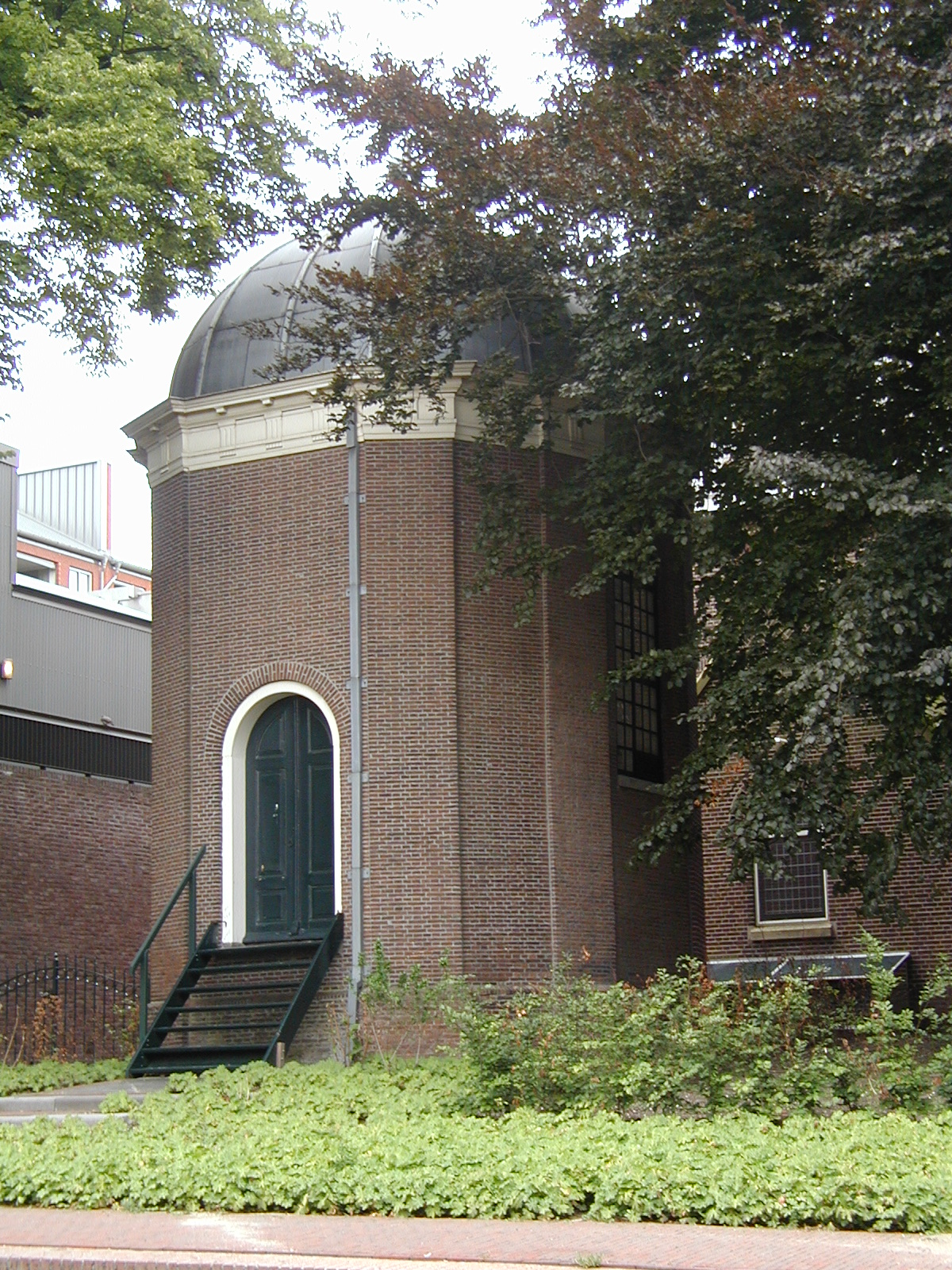 Burial building of the De Smeth family, Alphen aan den Rijn, The Netherlands